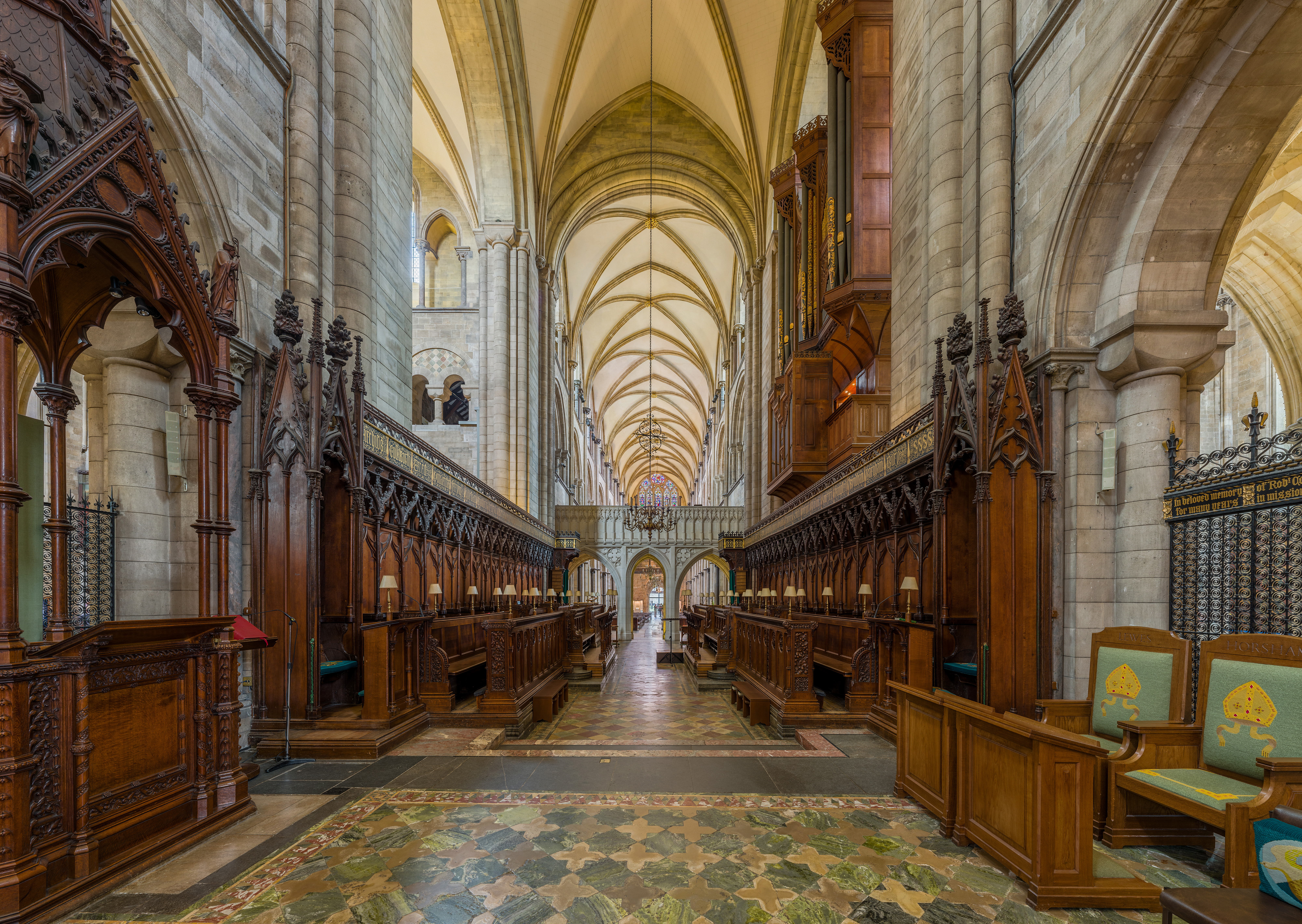 The choir of Chichester Cathedral looking west, in West Sussex, England.